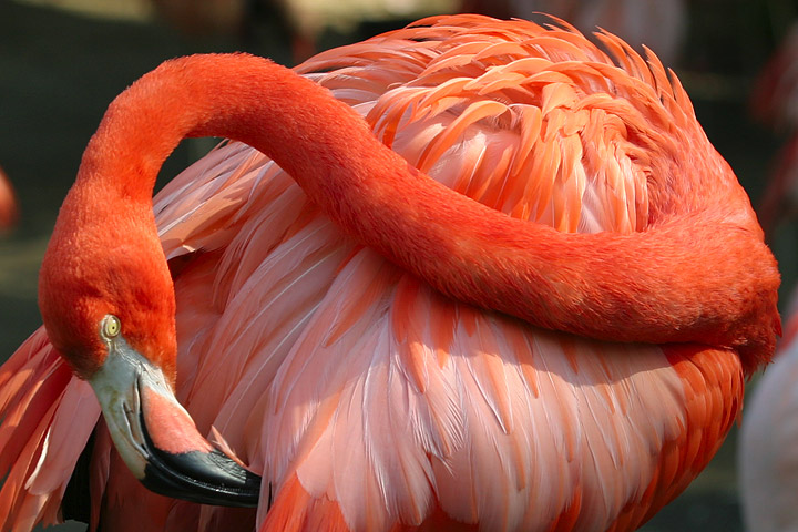 Flamingo